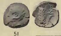 Greek coins and their parent cities (1902) Author: Ward, John, 1832-1912; Hill, George Francis, Sir, 1867-1948 Subject: Coins, Greek; Numismatics, Greek; Greece -- Description, geography; Italy -- Description and travel; Turkey -- Description and travel Publisher: London : Murray Possible copyright status: NOT_IN_COPYRIGHT Language: English Call number: AKB-0671 Digitizing sponsor: MSN Book contributor: Robarts - University of Toronto Collection: toronto Scanfactors: 7